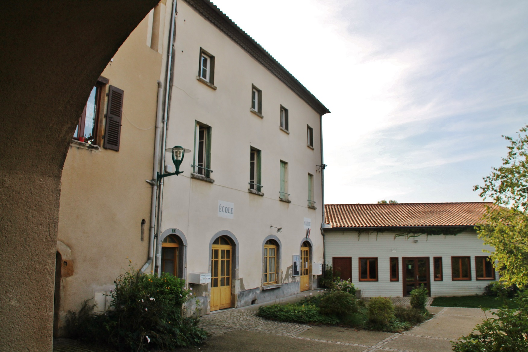 La Mairie